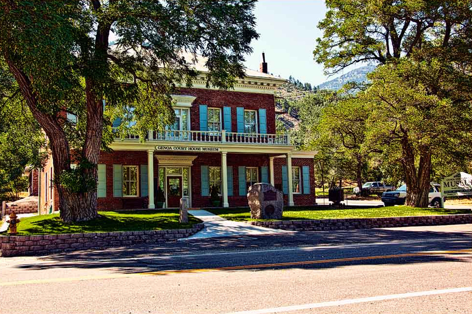 Genoa Courthouse Museum, located at 2304 Main Street (at Main and Fifth Streets) in downtown Genoa, Nevada. First used as a courthouse with a basement jail, then as a school, and now as a history museum. Built in 1865 and then rebuilt after the 1910 fire that decimated the town of Genoa. In 1916, the county seat was moved to Minden and the courthouse was sold to the Douglas County School District for just $15.00, then was transformed into an elementary school. It served for 40 years as a school before it closed in 1956. In 1969 it was reopened as a museum by the Carson Valley Historical Society. Today it is a museum with many displays that reflect the history and heritage of the area.